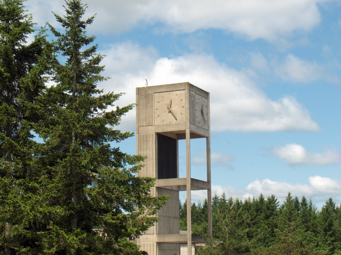 Clocktower at The Evergreen State College